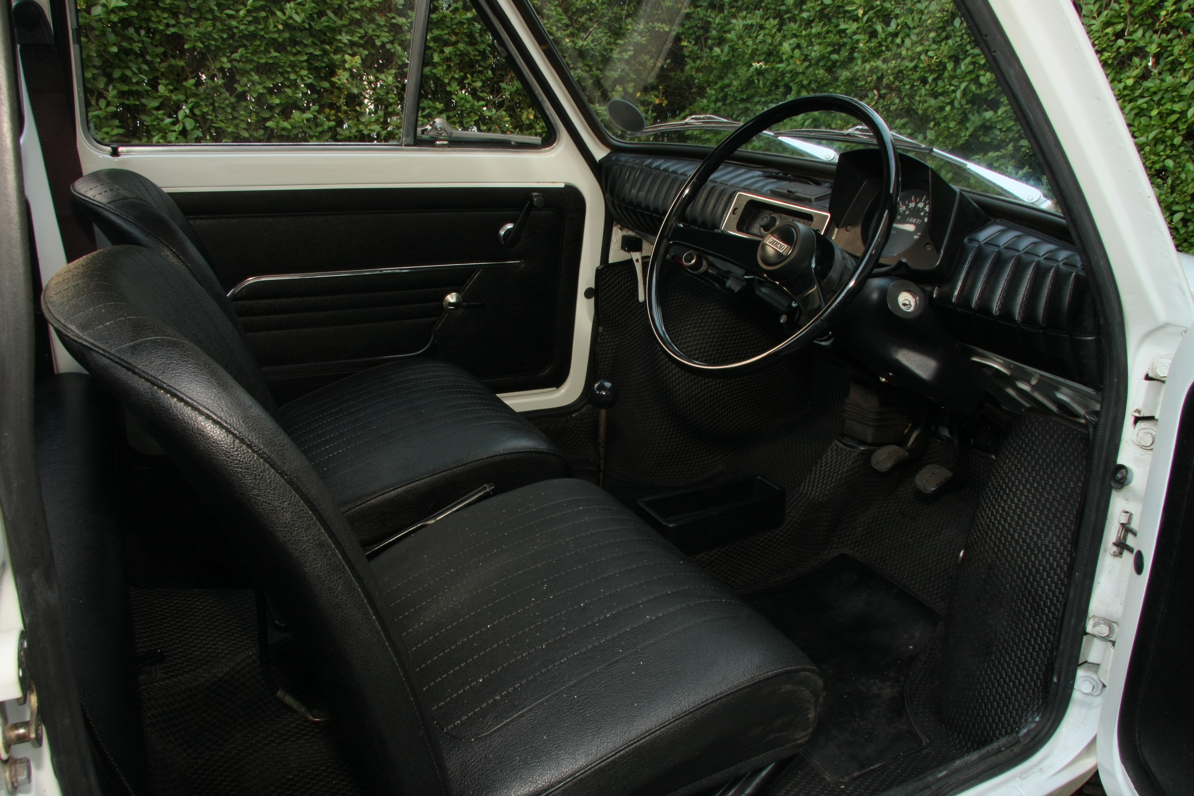 Interior of a white left hand drive Fiat 126 produced in 1973.